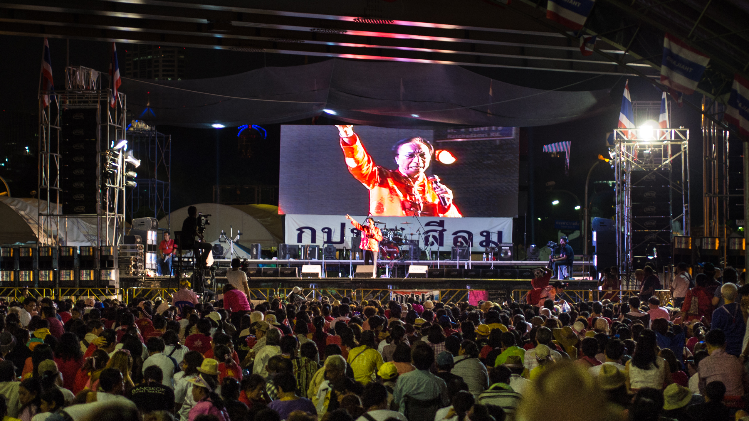 A crowd of anti-government protesters the day before the scheduled elections at the intersection of Silom road and Rama 4 road.